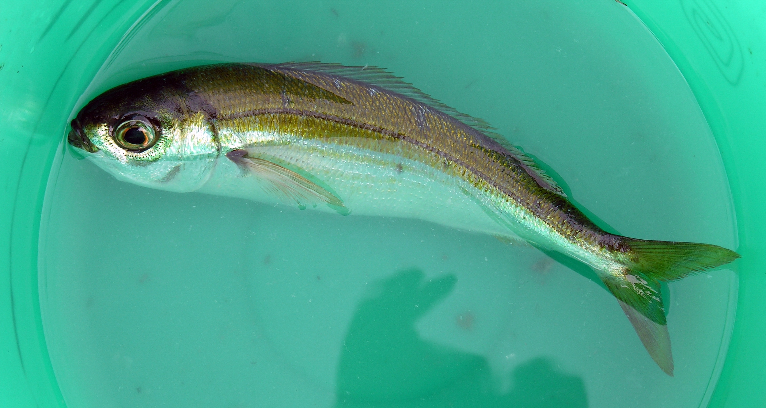 Boops boops, commonly called a Bogue, is a species of seabream native to the eastern Atlantic.